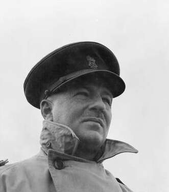 KATANA, SYRIA. 1942-01-01. BRIGADIER A.J. BOASE, COMMANDING 16TH AUSTRALIAN INFANTRY BRIGADE.